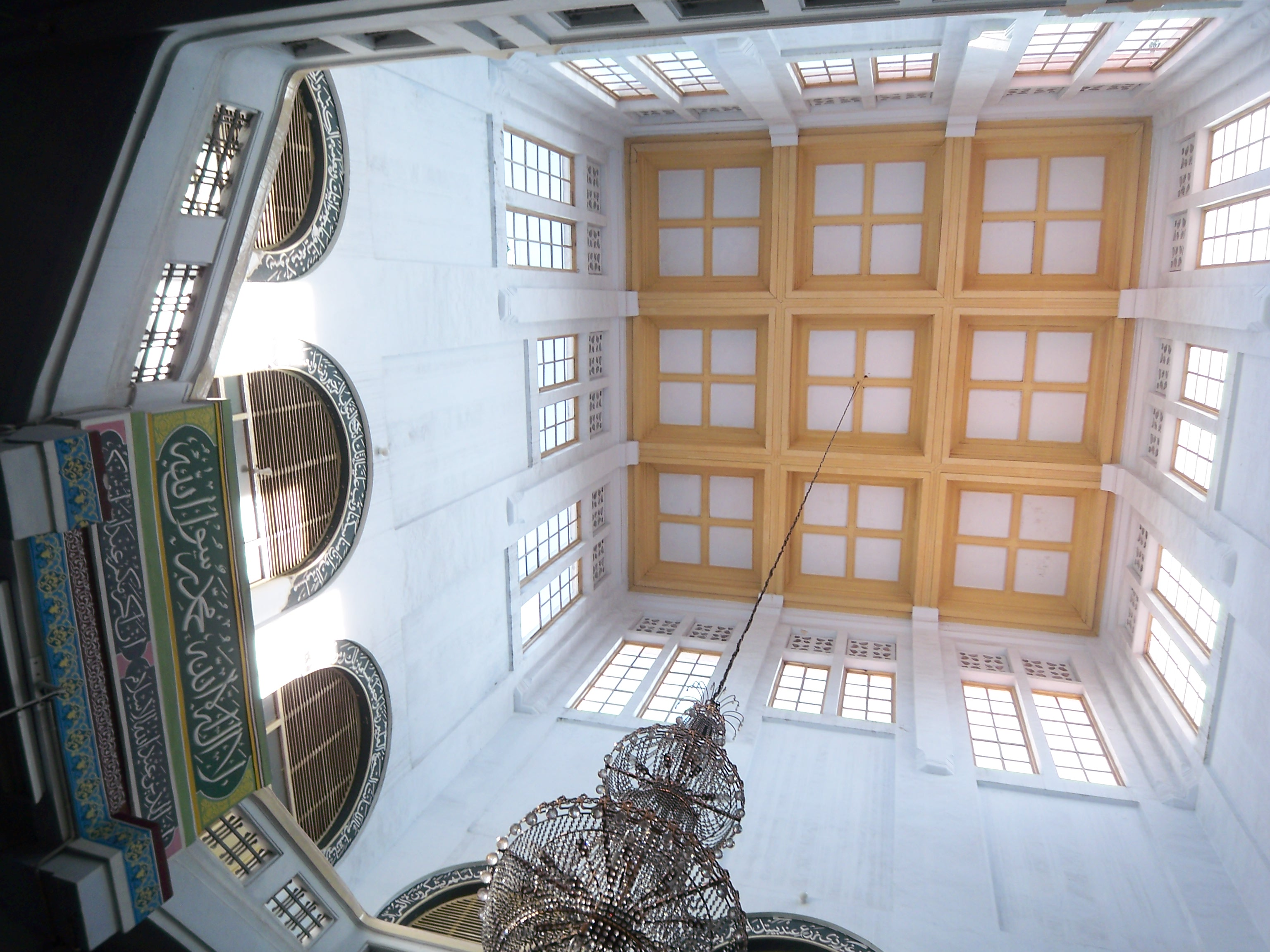 This is the inner attic view of this Cut Mutiah's Mosque, Cikini, Gondangdia, Jakarta, Indonesia.